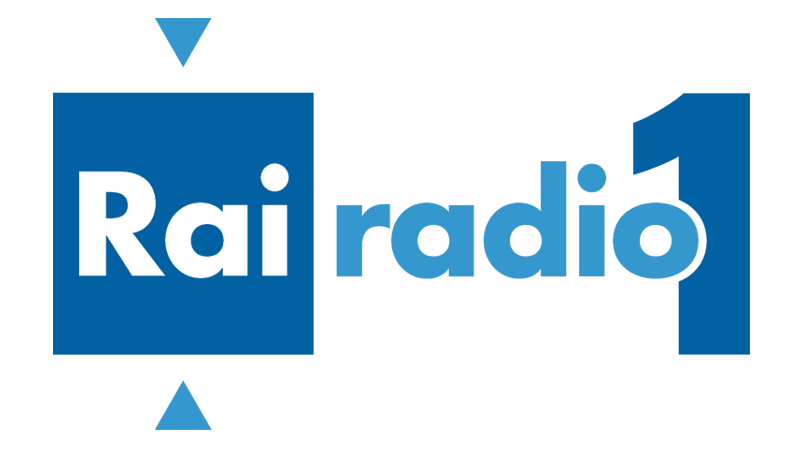 Rai Radio1 logo